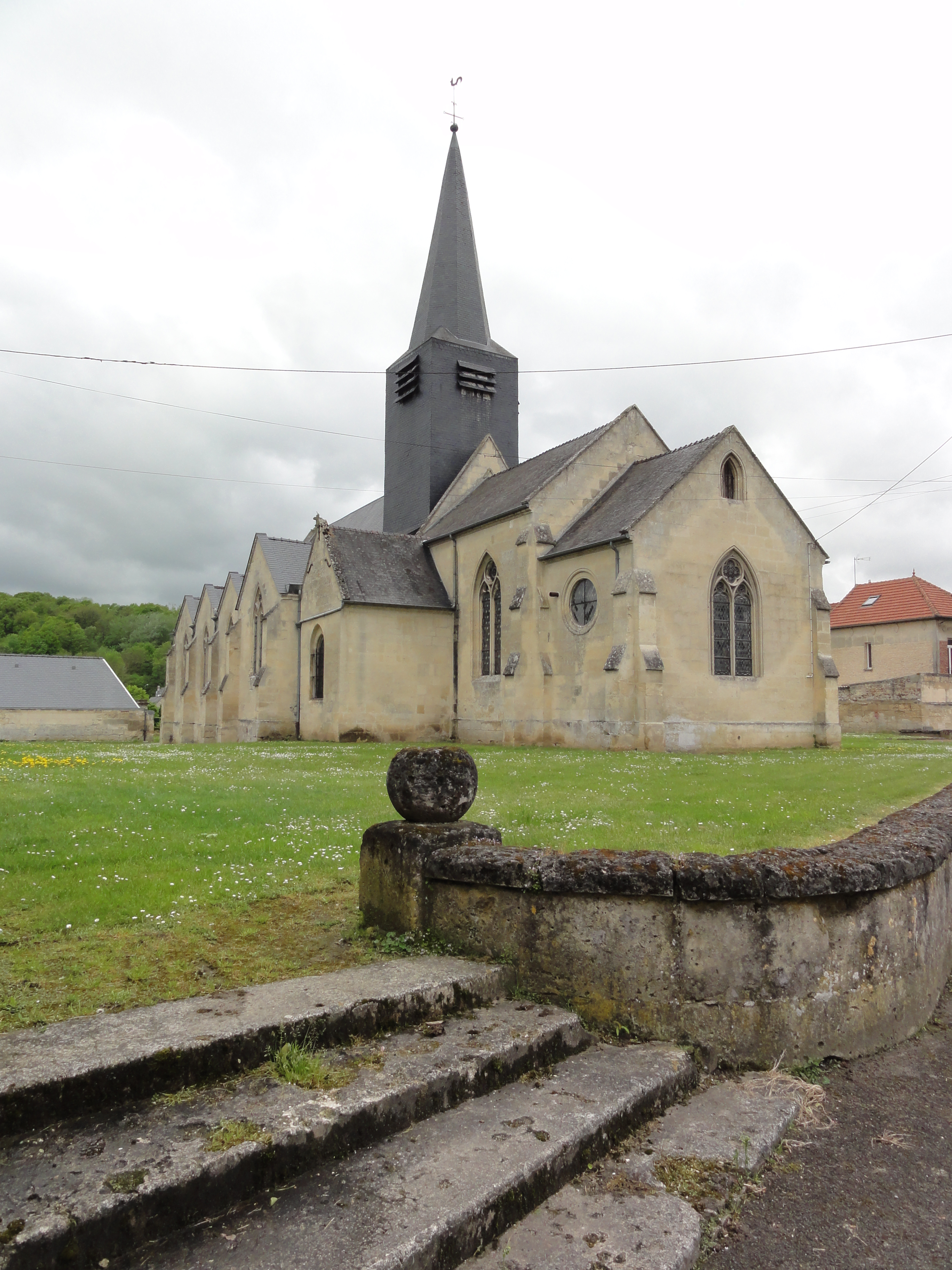 Fourdrain (Aisne) église de la Nativité-de-la -Sainte-Vierge